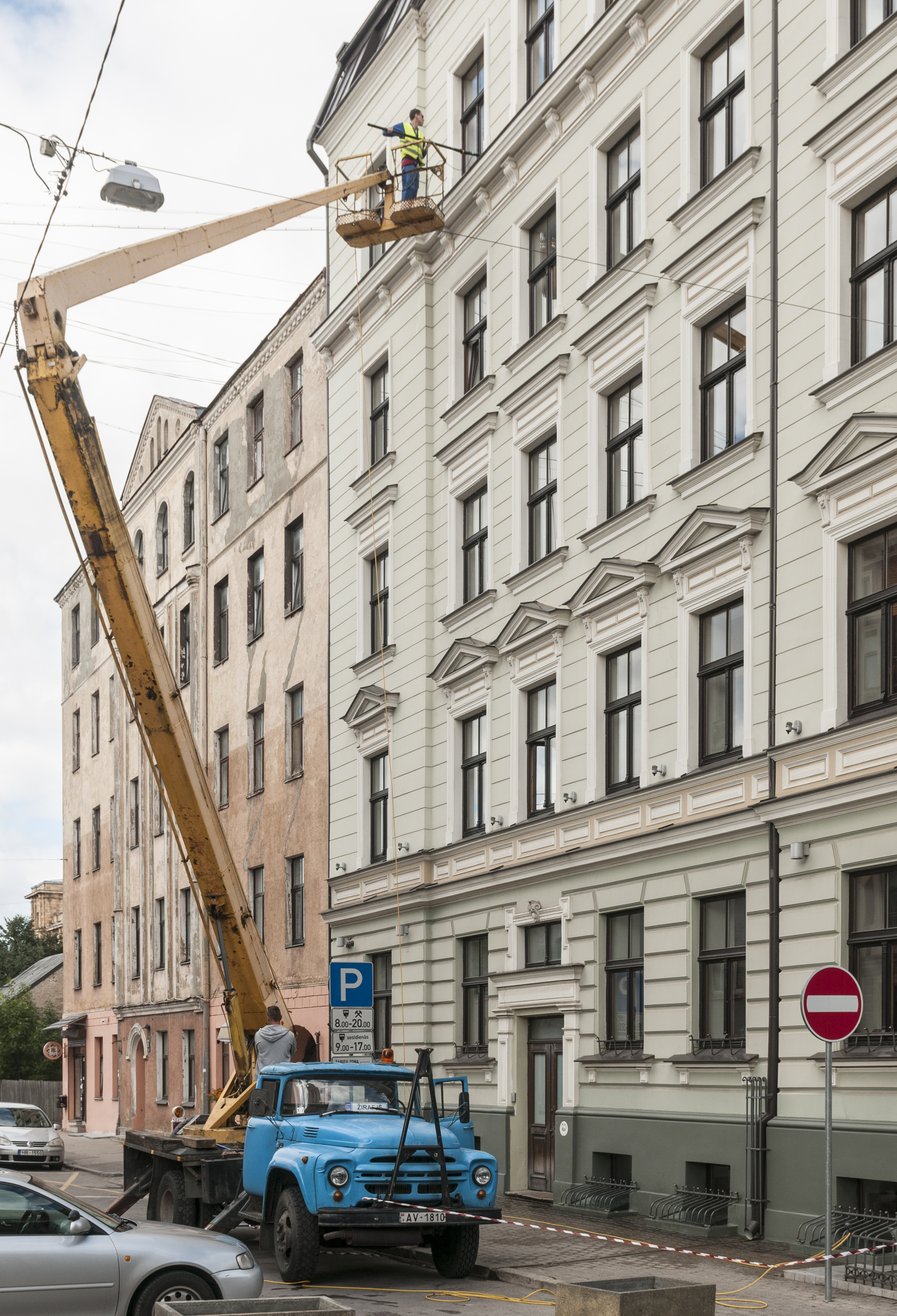 Moskauer Vorort in Riga, Lettland